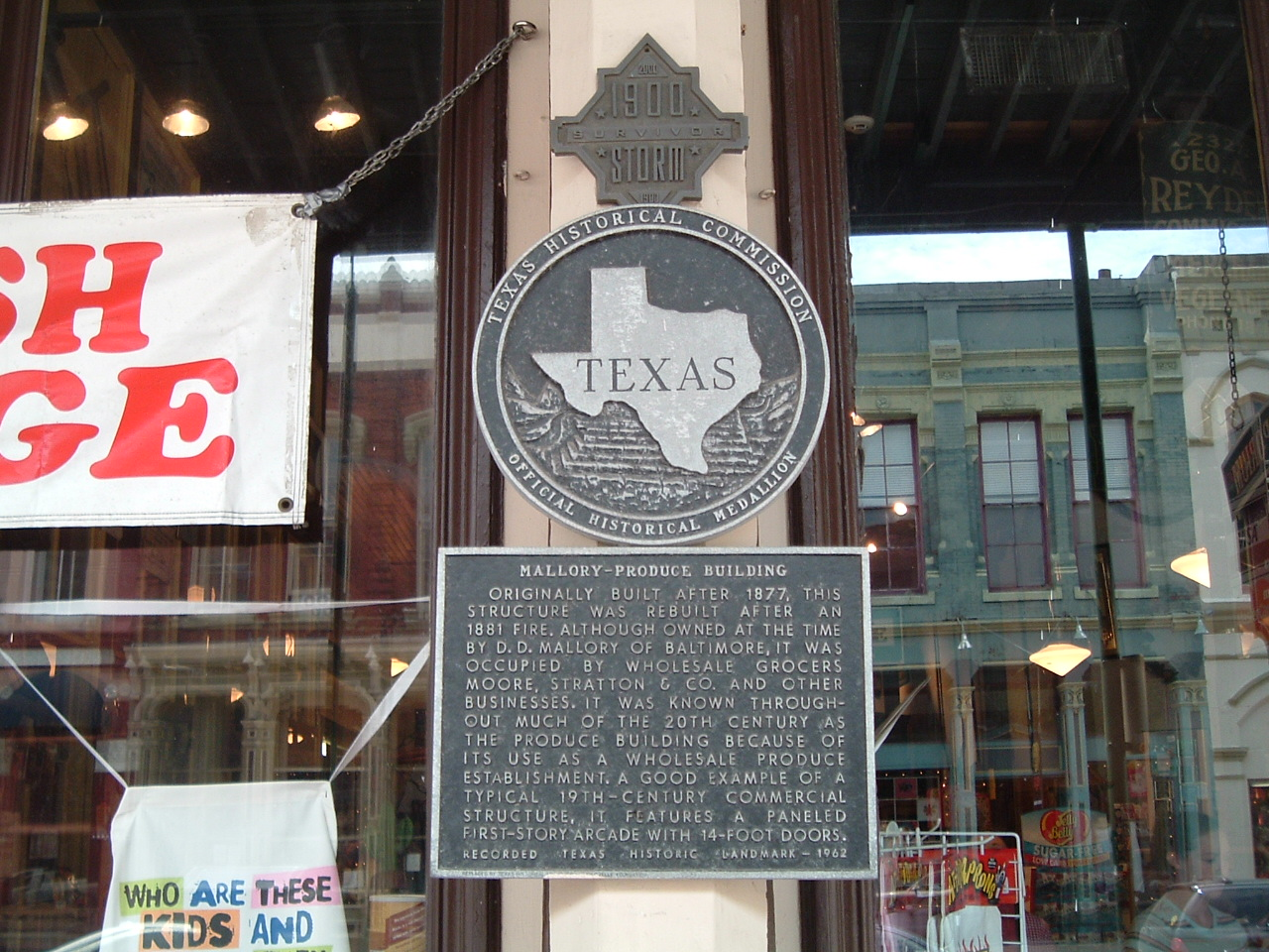 A historical marker placed on the Mallory-Produce Building along The Strand in Galveston, Texas. Taken by this user.